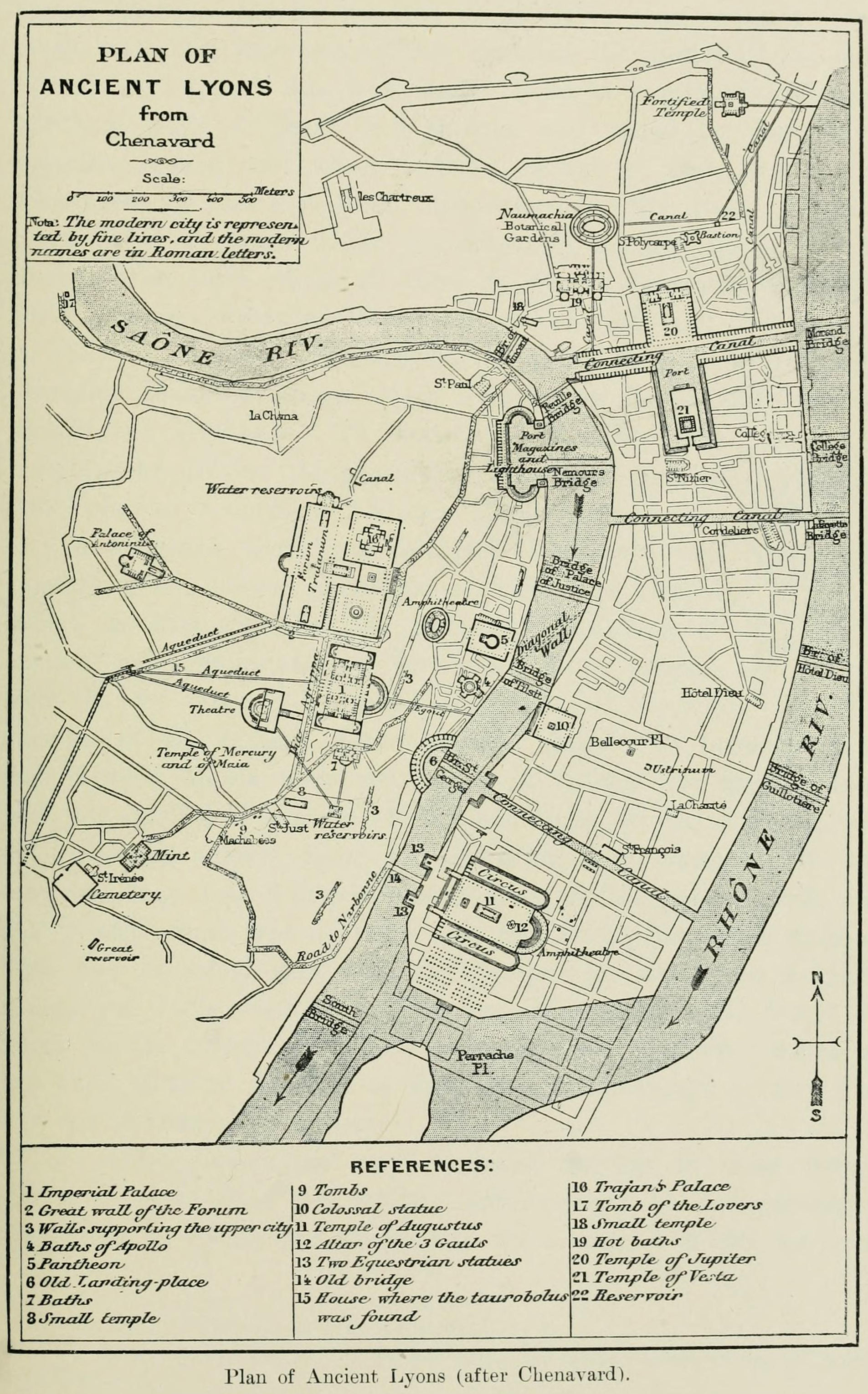 Lugdunum map drawn by Antoine Chenavard in 1834 and issued by Victor Duruy in 1883. Every legend item is false according to XXth century scavings, except 9 (tombs) Title: History of Rome and of the Roman people, from its origin to the Invasion of the Barbarians; Year: 1883 (1880s) Authors: Duruy, Victor, 1811-1894 Subjects: Publisher: Boston, Jewett